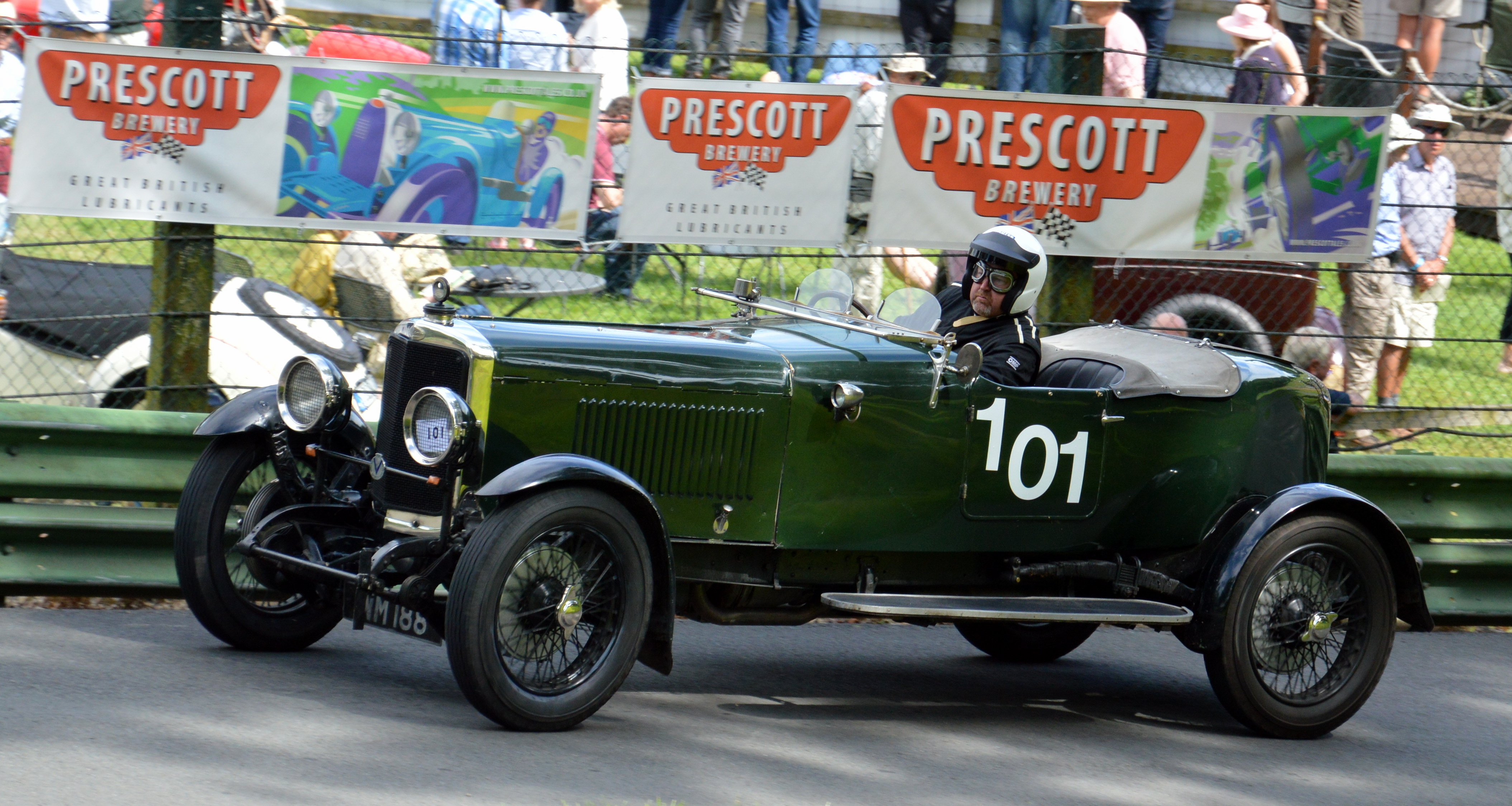 Paul Collis drives WM Collis' 3300(?)cc 3-litre 1926 Sunbeam Twin Cam Tourer on a timed run at the VSCC hill climb at Prescott WM188 (DVLA) first registered 5 January 1927, 3013 cc (s/b 2916 cc)